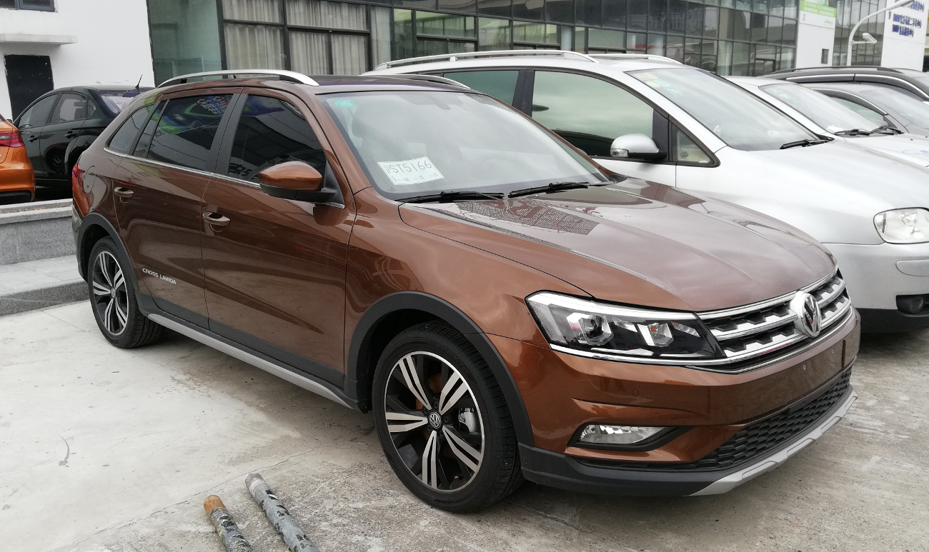 Volkswagen Cross Lavida facelift photographed in Shanghai, China.